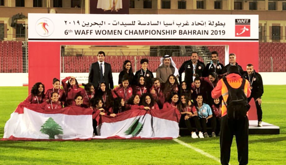 Lebanon women's national football team during the 2019 WAFF Women's Championship third place award ceremony.